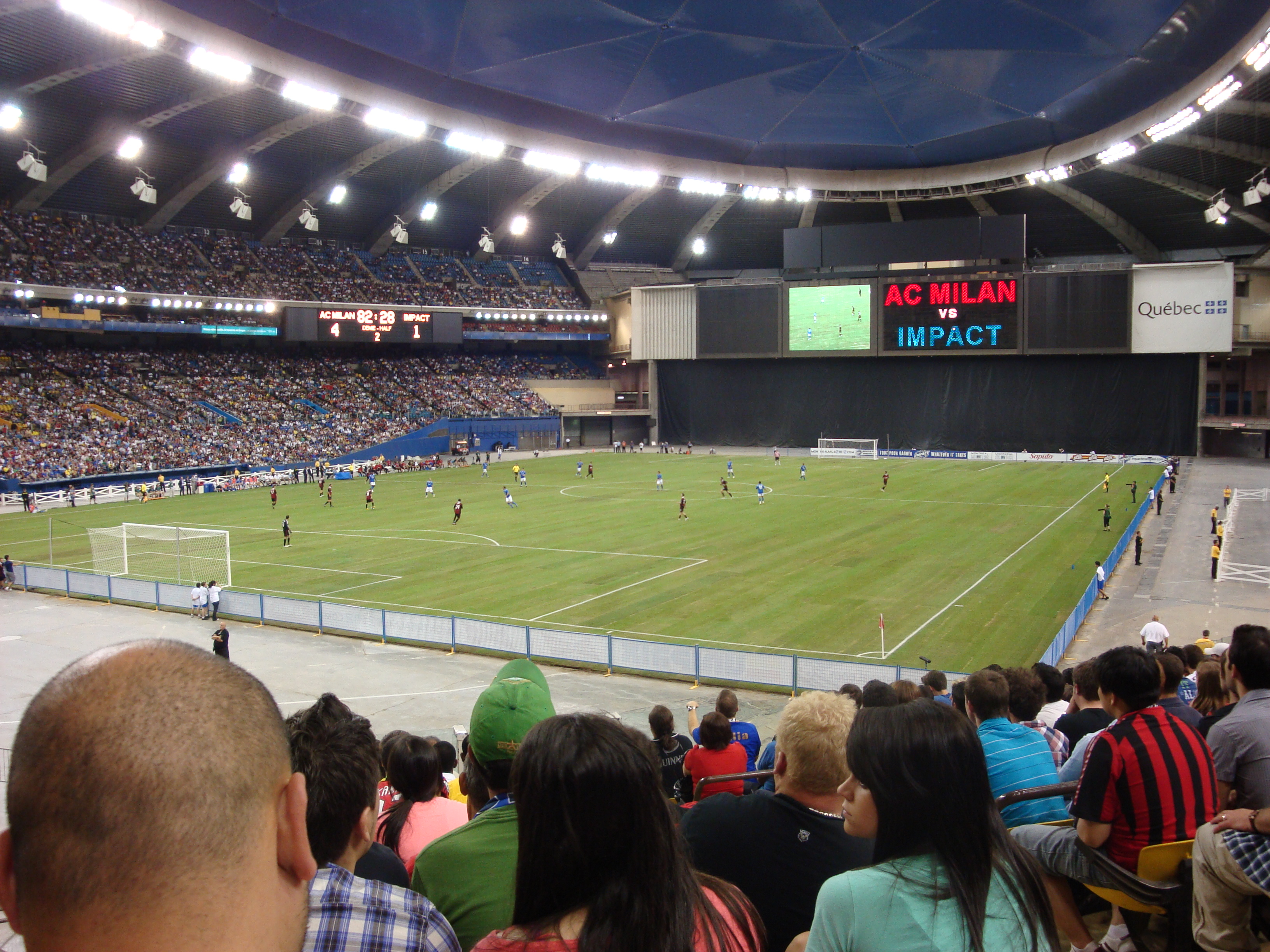 Montreal Olympic stadium in soccer configuration